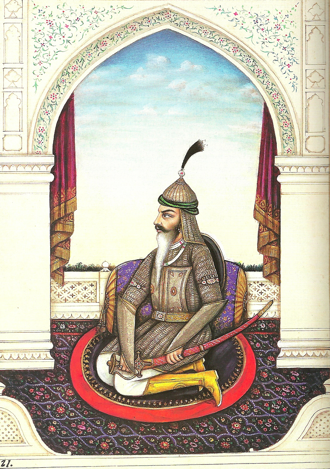 General Hari Singh Nalwa seated in full armor adopting a militant stance